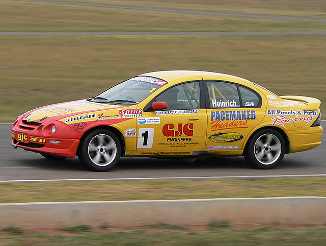 Race car number 1, an AU Ford Falcon driven by Bruce Heinrich during Round 4 of the 2006 Australian Saloon Car Championship at Mallala Motor Sport Park